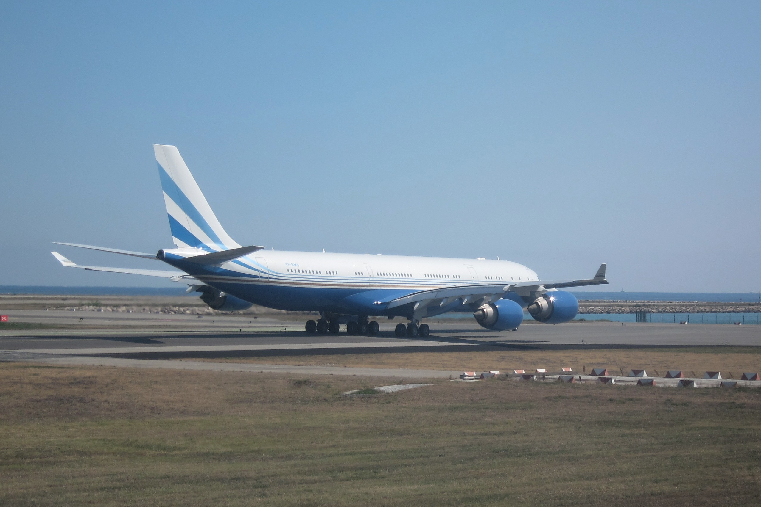 A private A340-500 leaving Nice